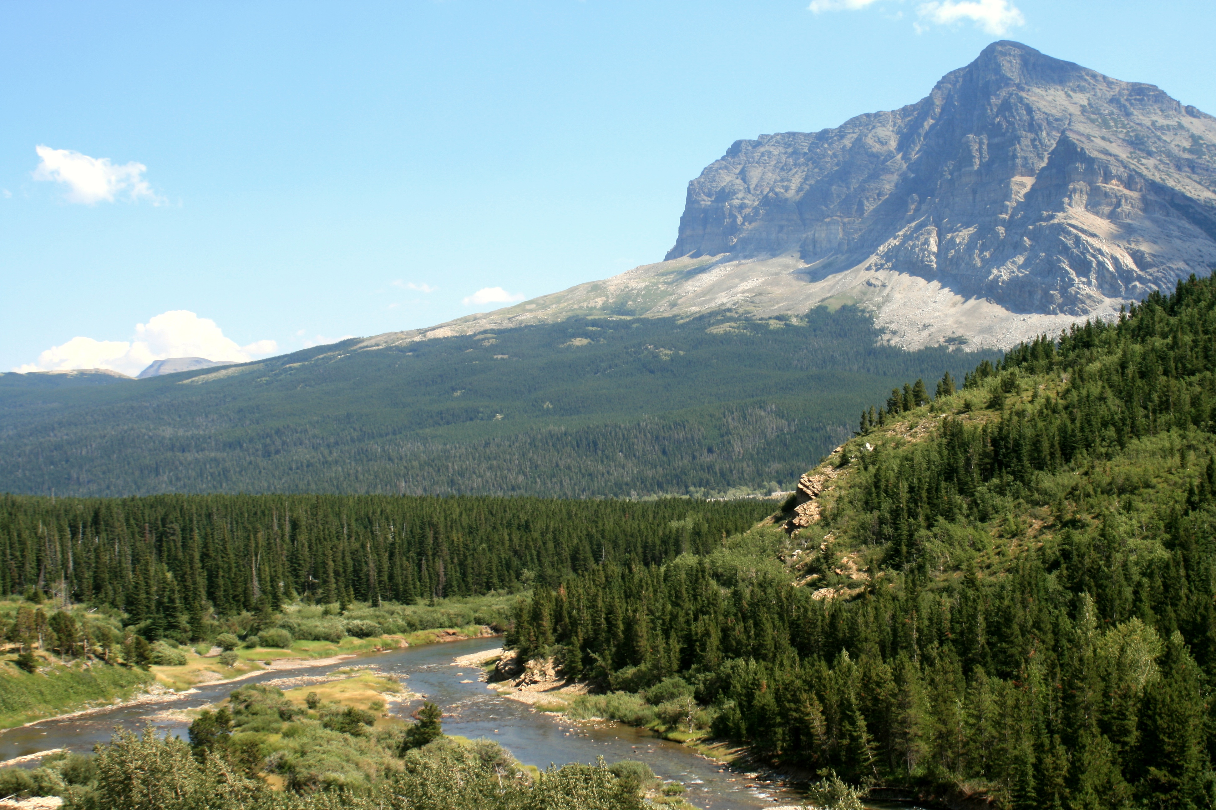 Glacier National Park, Montana, USA. The image shows Whynn Mountain over Swiftcurrent Creek in the Many Glaciers Area of the park. Original description by uploader: I took this picture with a Canon Digital Reble XTi in the Many Glacier area of Glacier National Park. This is, in my opinion, one of the most beautiful areas on Earth.